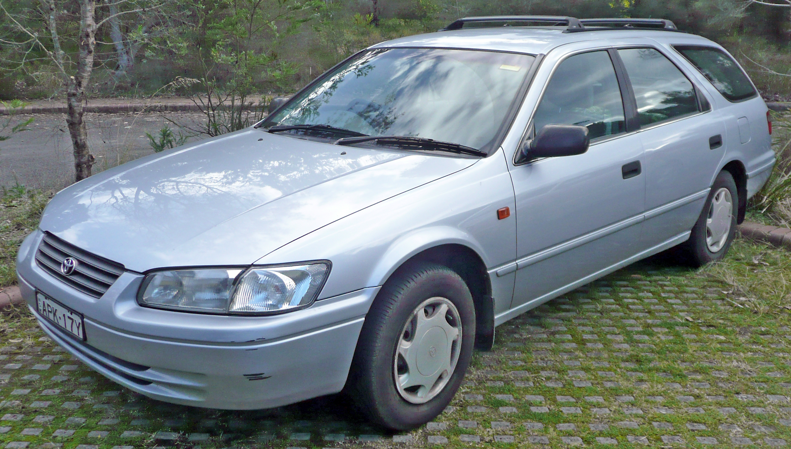 1998 Toyota Camry (SXV20R) CSi station wagon. Photographed in Audley, New South Wales, Australia.